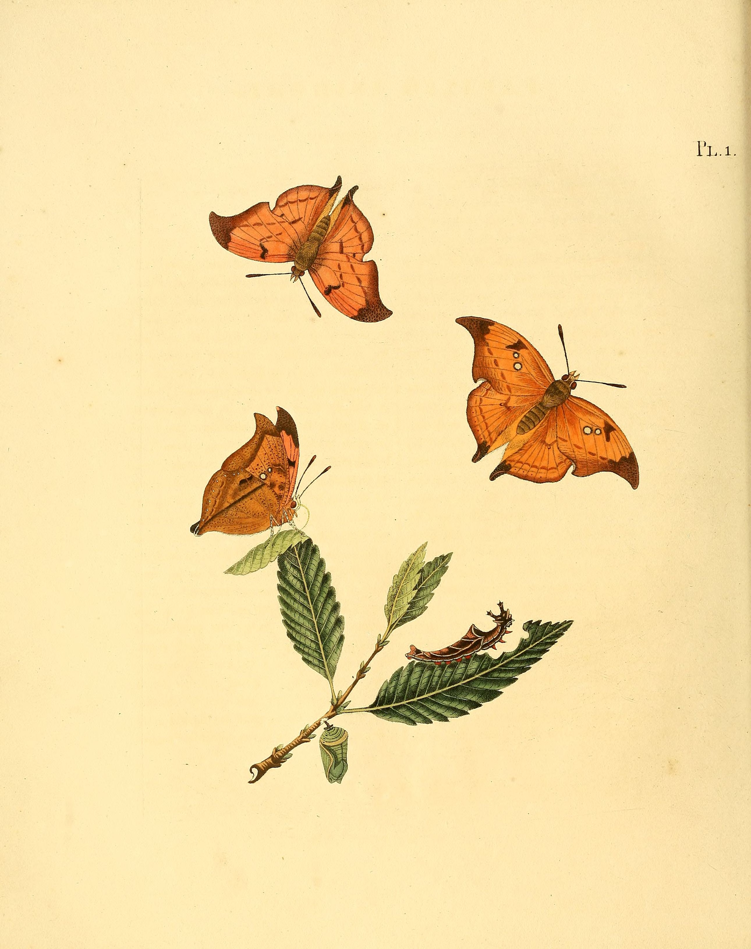 Illustration of: Zaretis isidora (as syn. Papilio isidore)